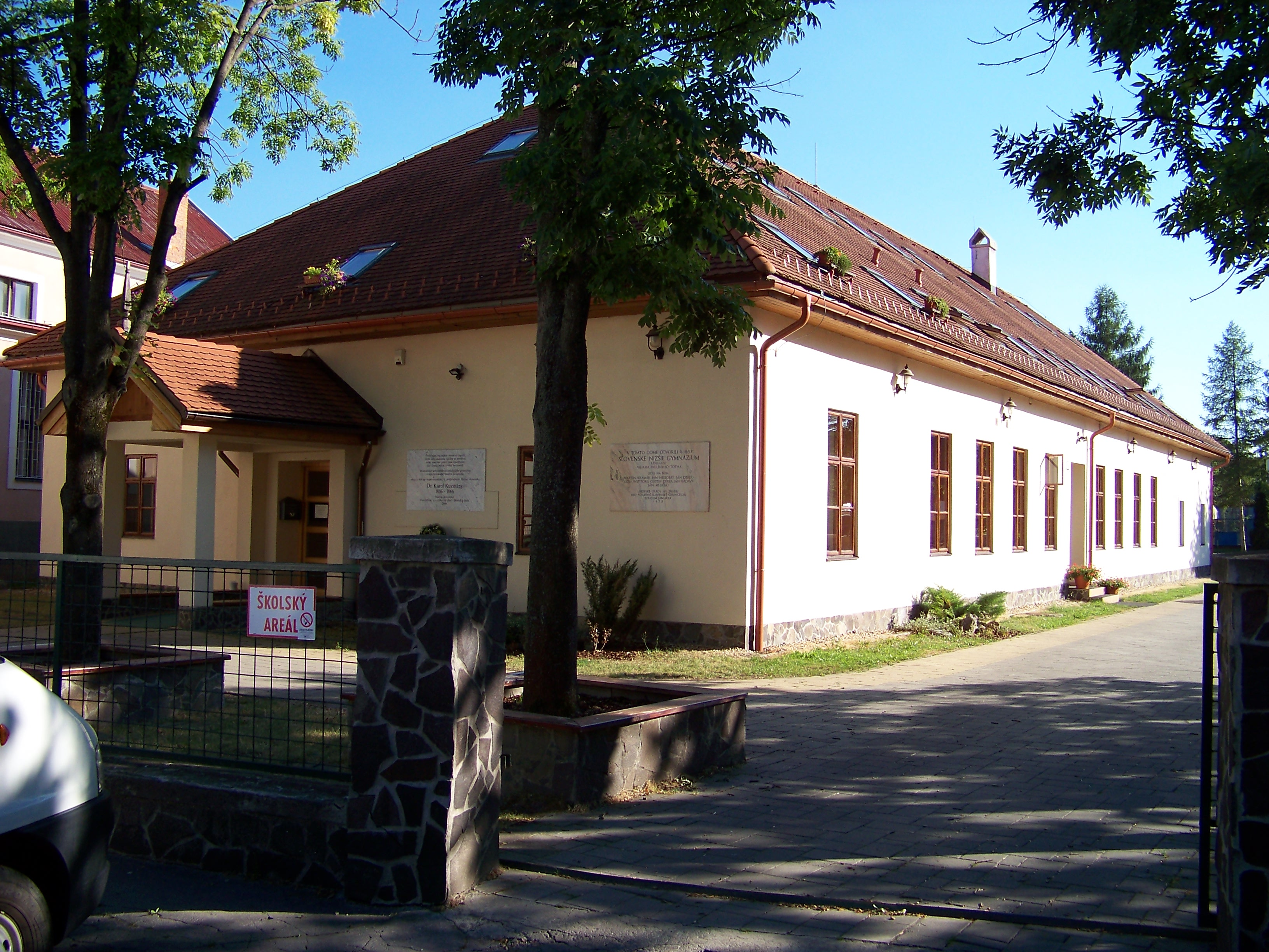 1. slovak gymnasium